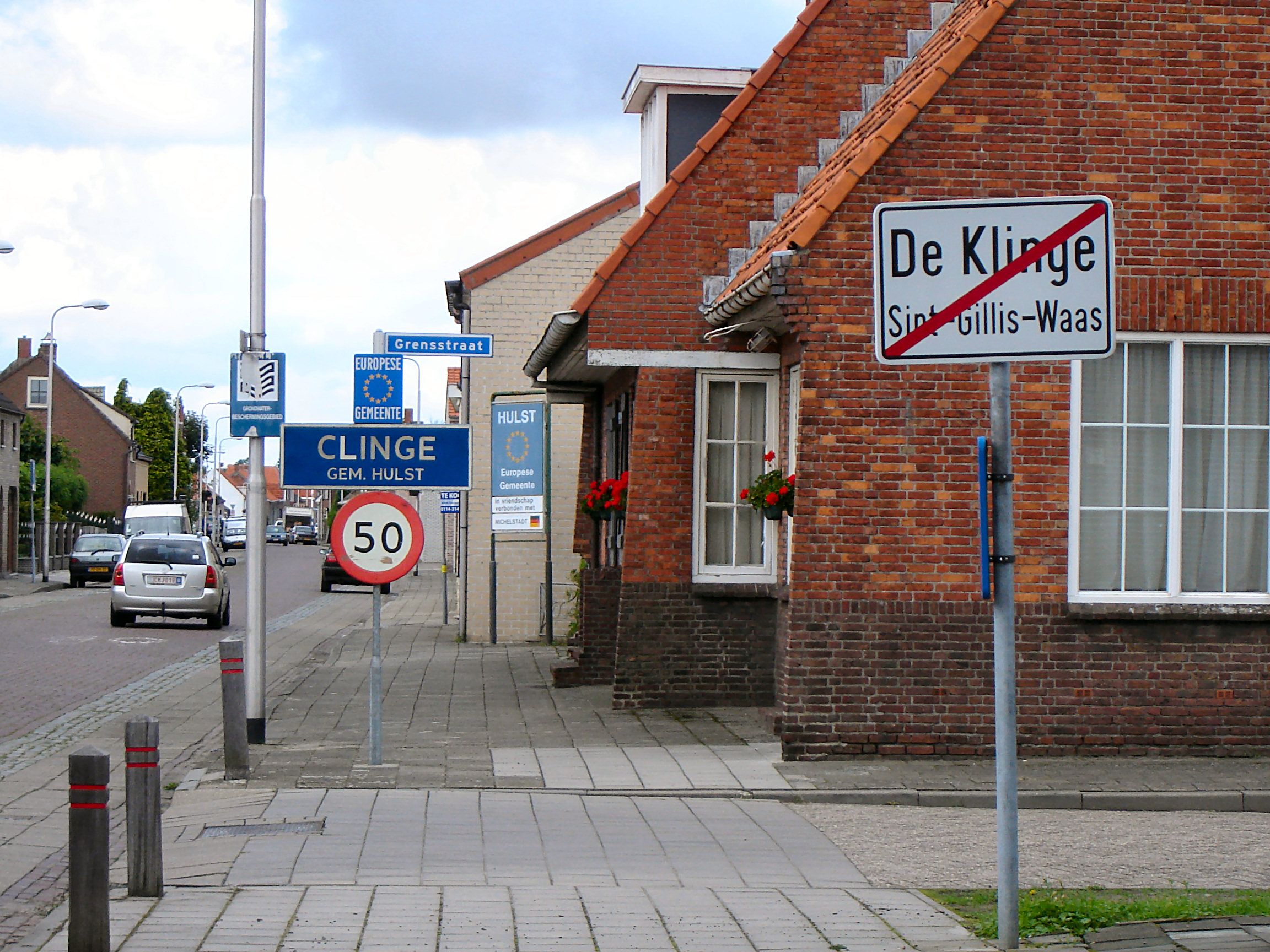 Border between Belgium and the Netherlands, between De Klinge (Belgium) and Clinge (Netherlands). De Klinge, Sint-Gillis-Waas, East Flanders, Belgium Clinge, Hulst, Zeeland, Netherlands